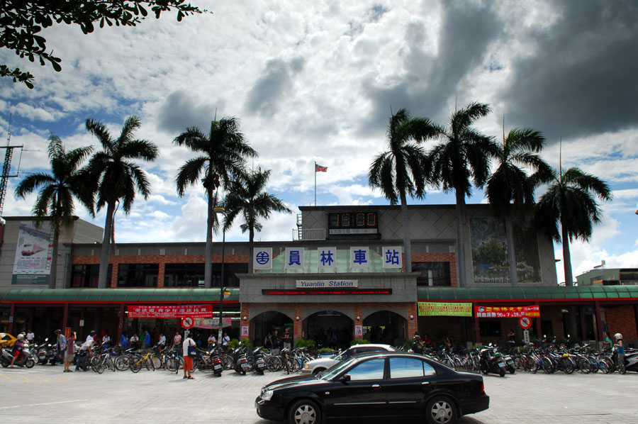 YuanLin Station is a major train station of Taiwan's Western main rail line. It's the main station of YuanLin Town, ChangHua County.